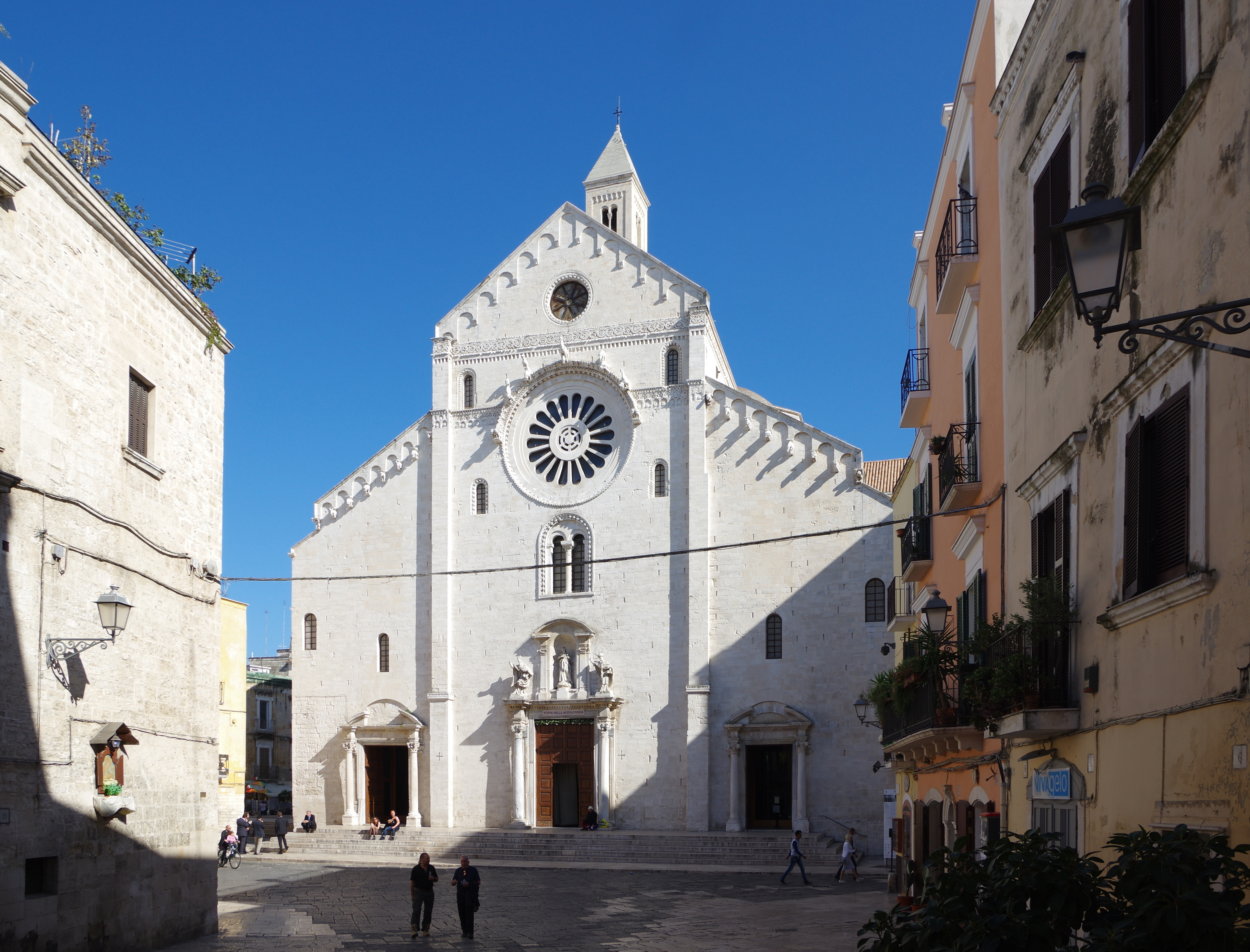 Italy, Bari, Cathedral San Sabino